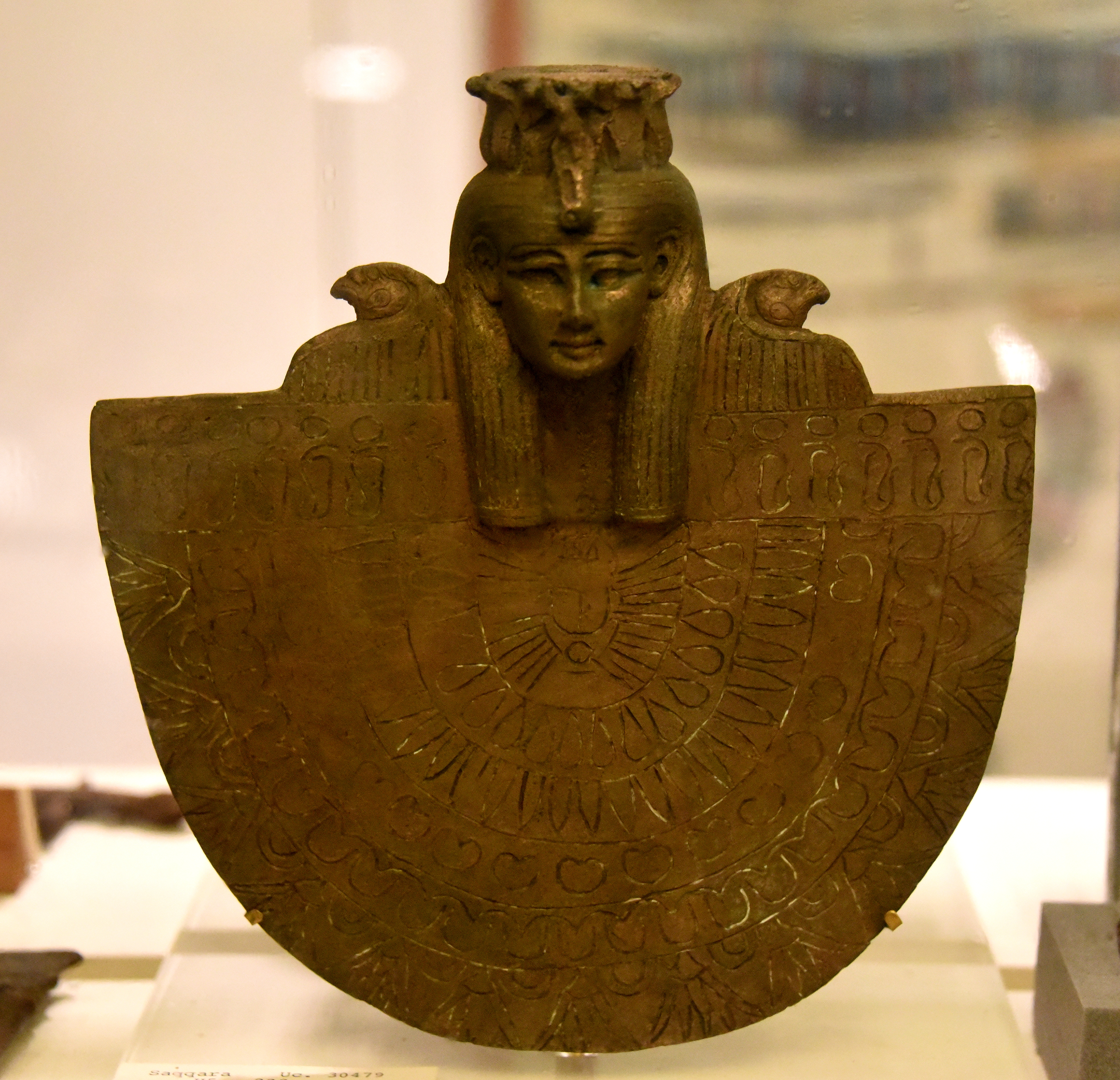 Bronze Aegis of Isis. She wears a tripartite wig with 12 uraeus serpents. From Saqqara, H5-228, Egypt. Ptolemaic period, 30th Dynasty. The Petrie Museum of Egyptian Archaeology, London. With thanks to the Petrie Museum of Egyptian Archaeology, UCL.